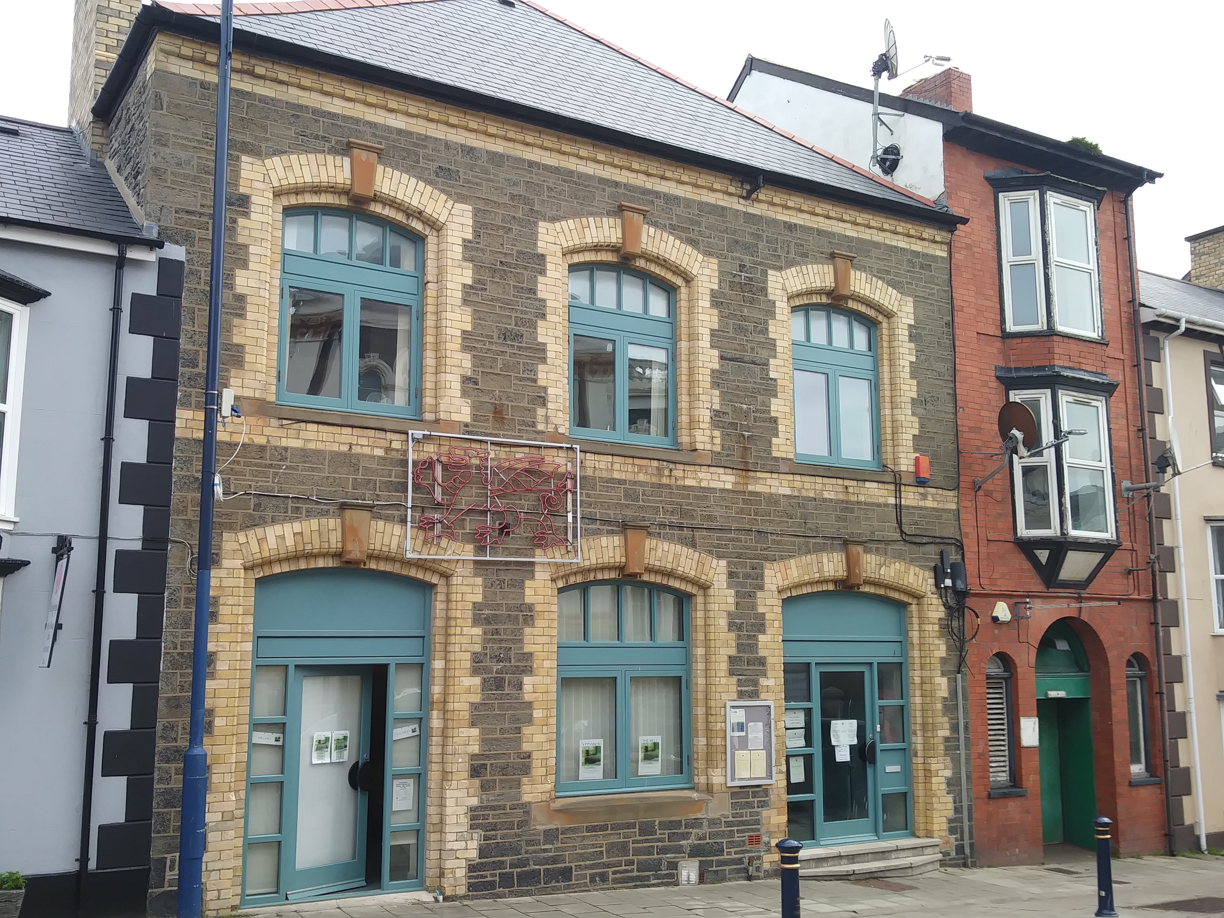 Aberystwyth, Town Council Office, Baker St Аҧсшәа: Aberystwyth, Canolfan Cyngor y Dref, Stryd y Popty